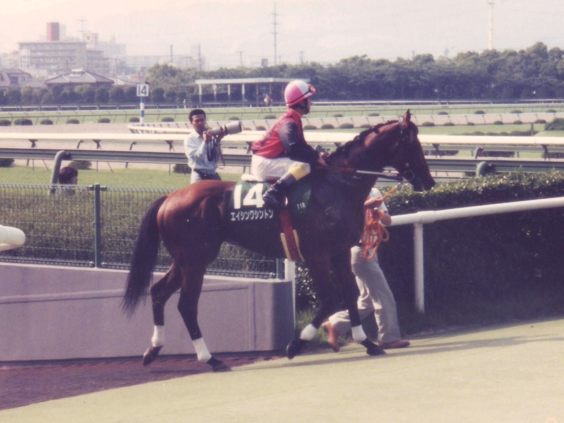 Eishin Washington (house), Famous Japanese racehorse